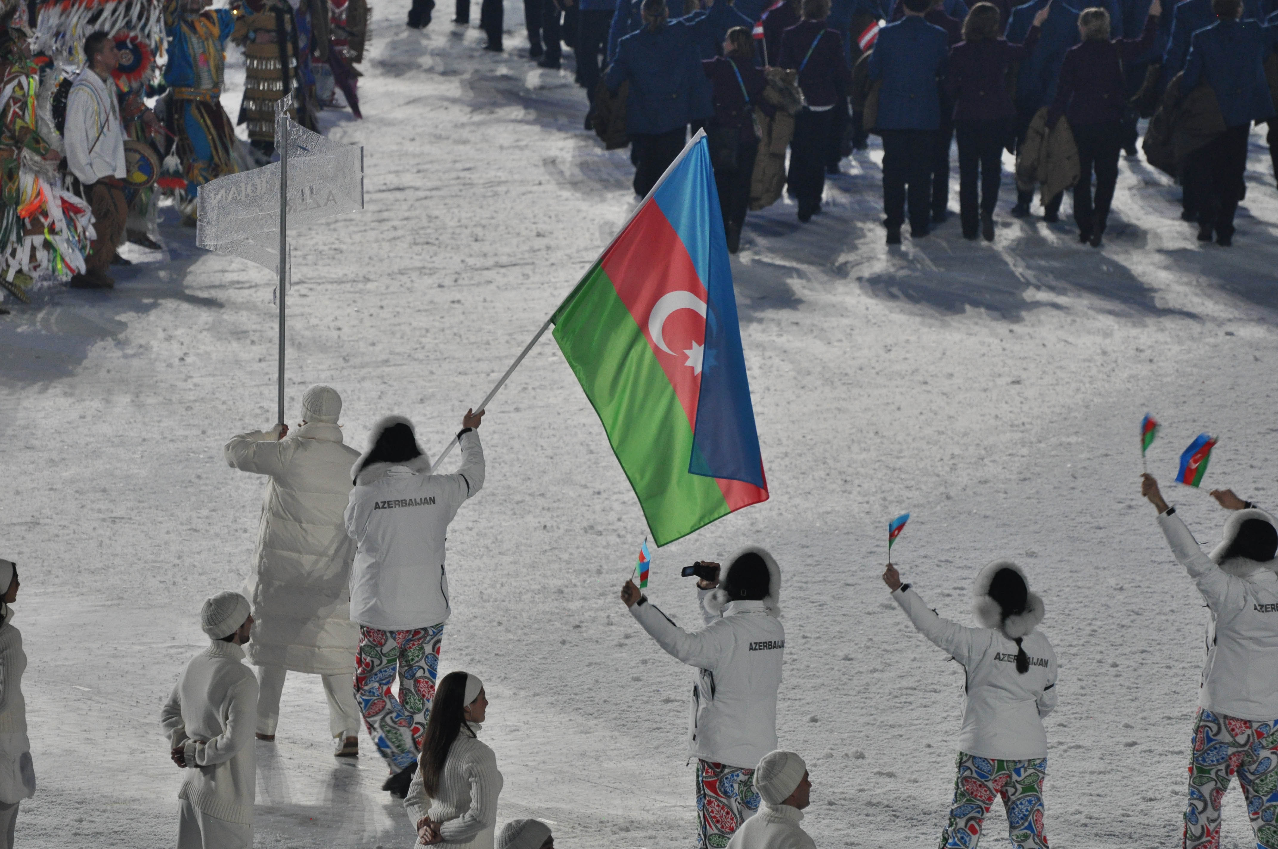 Azerbaijani team at the opening ceremony.